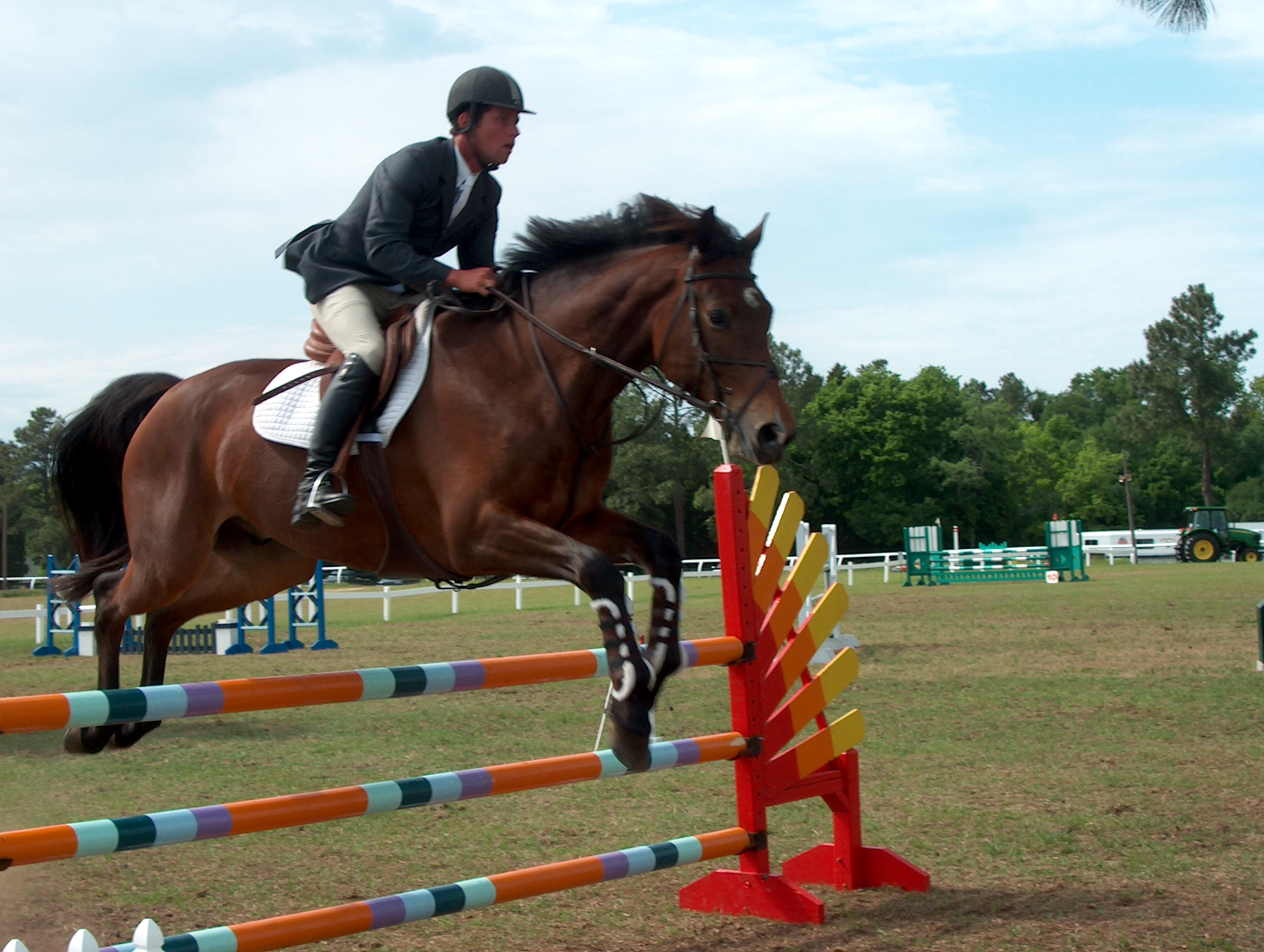 Grand Prix horse jumping